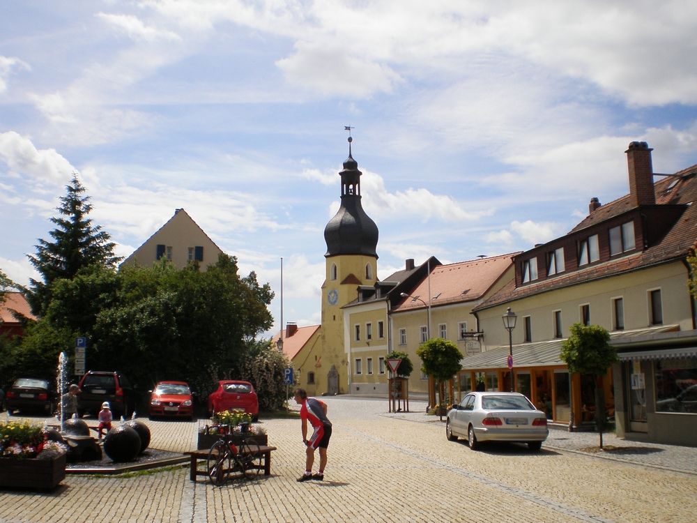 Hohenberg an der Eger, Bavaria, Germany